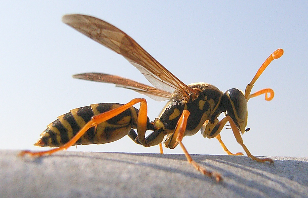 title=フタモンアシナガバチ flickr_url=[1] Permission = cc-by-2.0